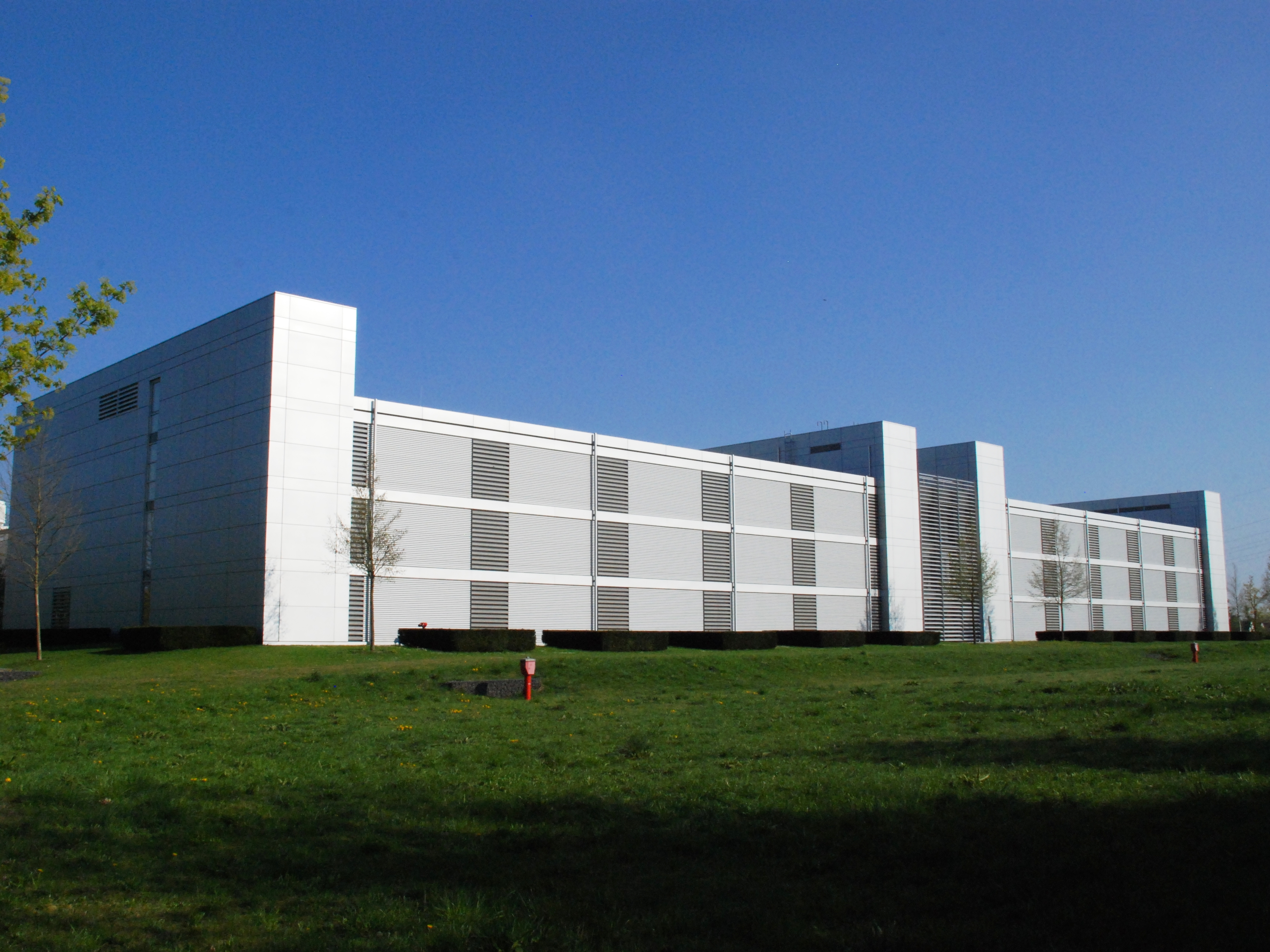 Library depot building ( of Bayerische Staatsbibliothek in Garching, Bavaria, Germany